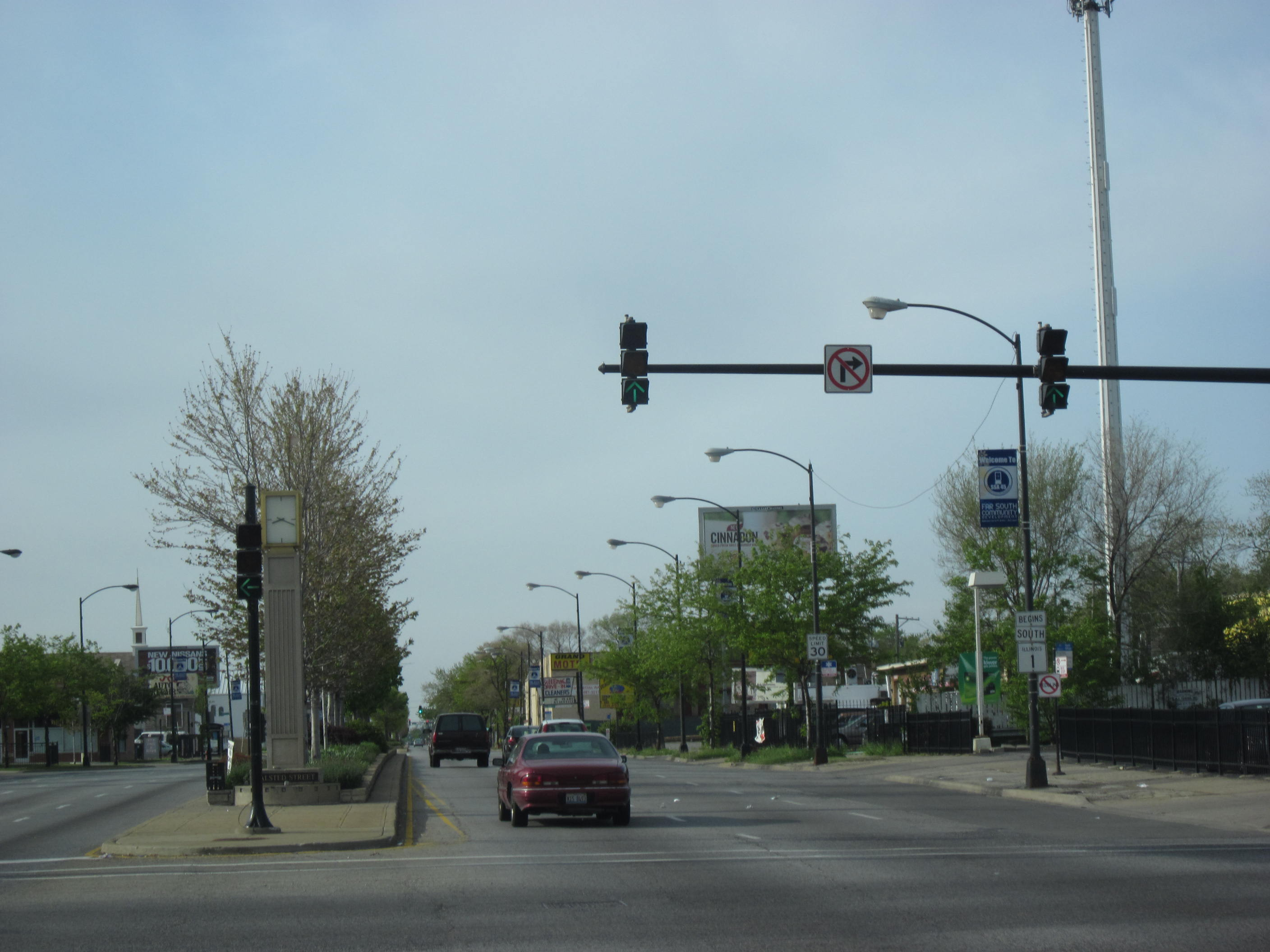 Northern terminus of Illinois Route 1. Looking southbound from I-57